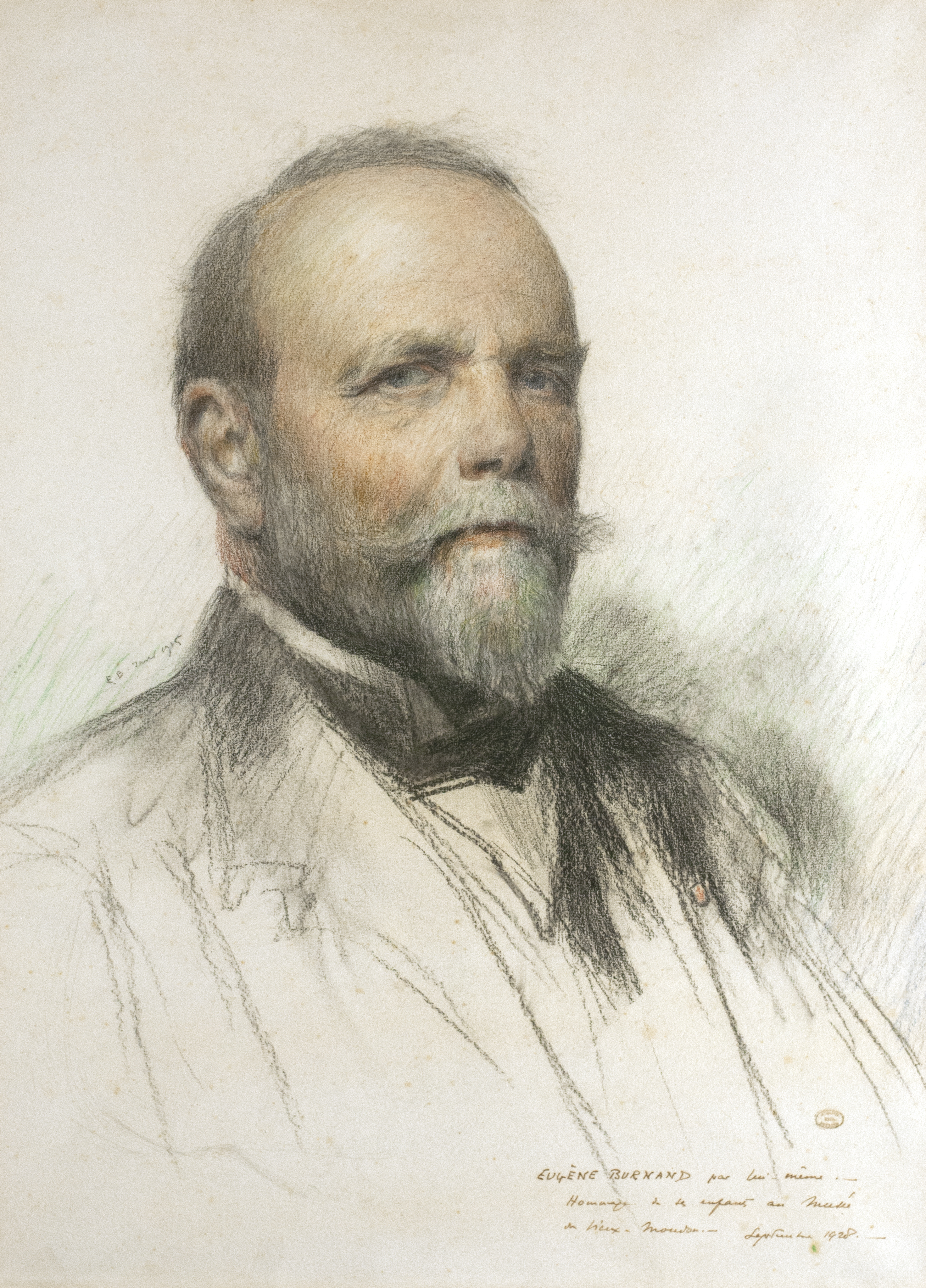 Eugène Burnand pastel and pencil self portrait in the Eugène Burnand Museum at Moudon, Switzerland